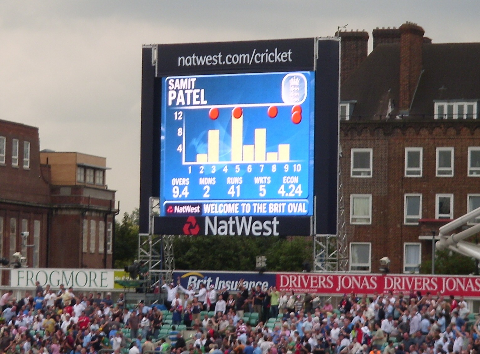 The big screen at The Oval records Samit Patel's Manof the Match winning bowling